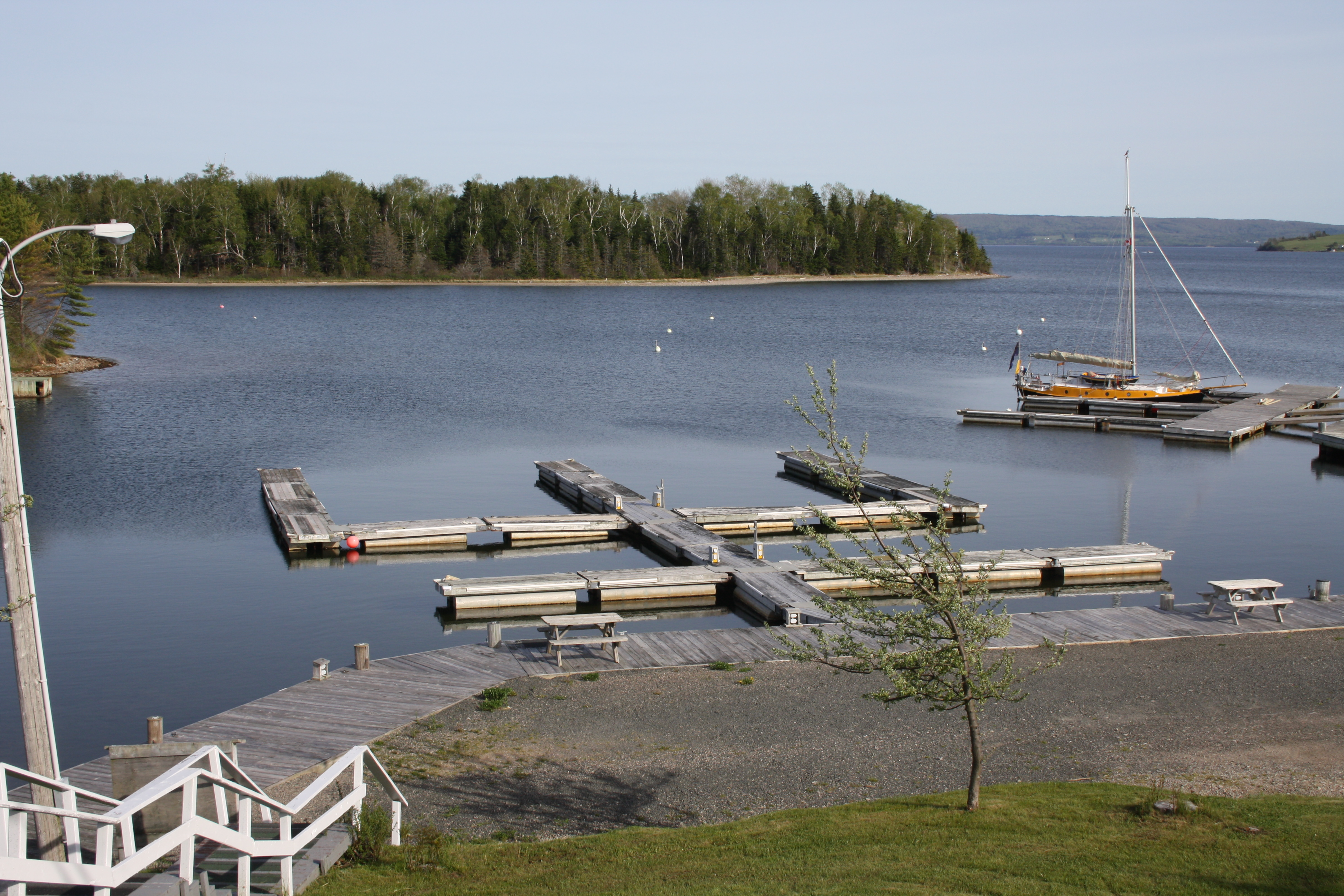 A view of the Bras d'Or Lakes and the western tip of Kidston Island from the patio of Royal Canadian Legion Branch 53.